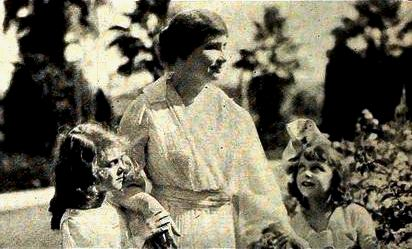 Still from the American film Deliverance (1919) with Helen Keller and child actresses Etna Ross and Tula Belle, on page 20 of the July 1919 Film Fun. Ross and Belle portrayed Keller and Nadja in the first act of the film.